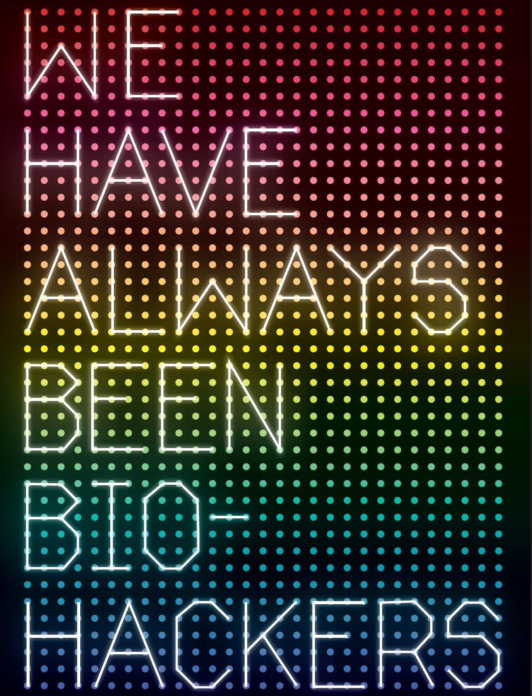 We Have Always Been Biohackers poster by the Center for Genomic Gastronomy (2010)